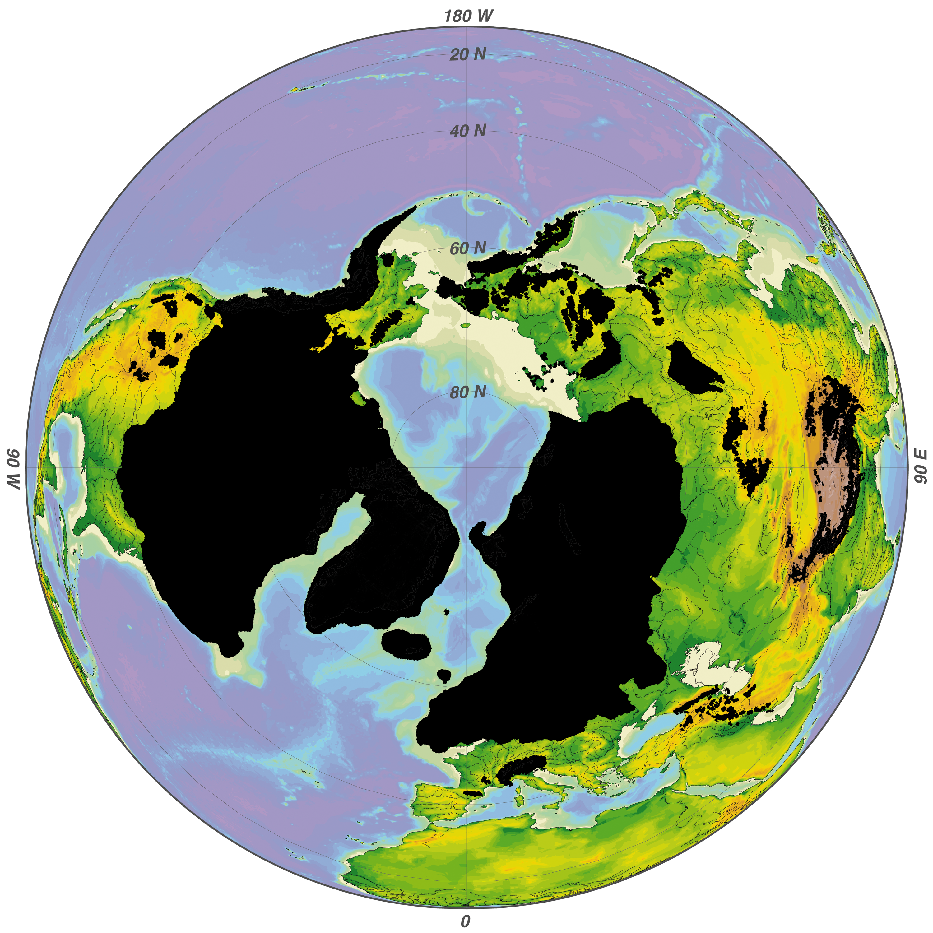 Maximum glaciation of the northern hemisphere (black) during the Quaternary climatic cycles Ice coverage: J. Ehlers & P.L. Gibbard: The extent and chronology of Cenozoic global glaciation. Quaternary International, 164-165, 6-20, 2007 Topography: U.S. Department of Commerce, National Oceanic and Atmospheric Administration, National Geophysical Data Center (NOAA/NGDC), 2-minute Gridded Global Relief Data (ETOPO2) 2006 Map software: Schlitzer, R., Ocean Data View, 2007